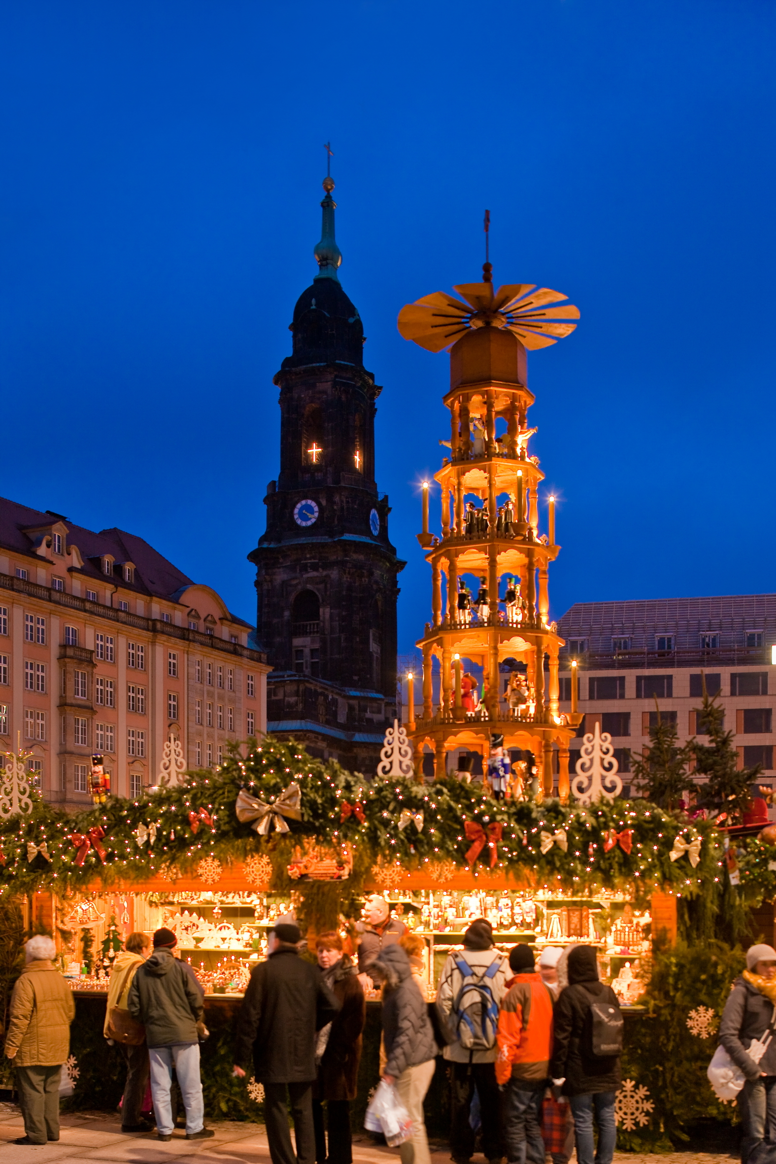 world's largest Erzgebirge Christmas pyramid at Dresden Striezelmarkt (14-metre high). Dresdner Kreuzkirche in the background.